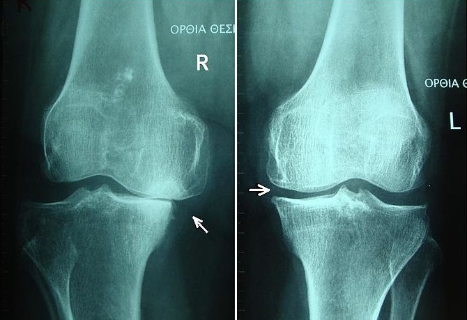 Knee osteoathritis stages II and III